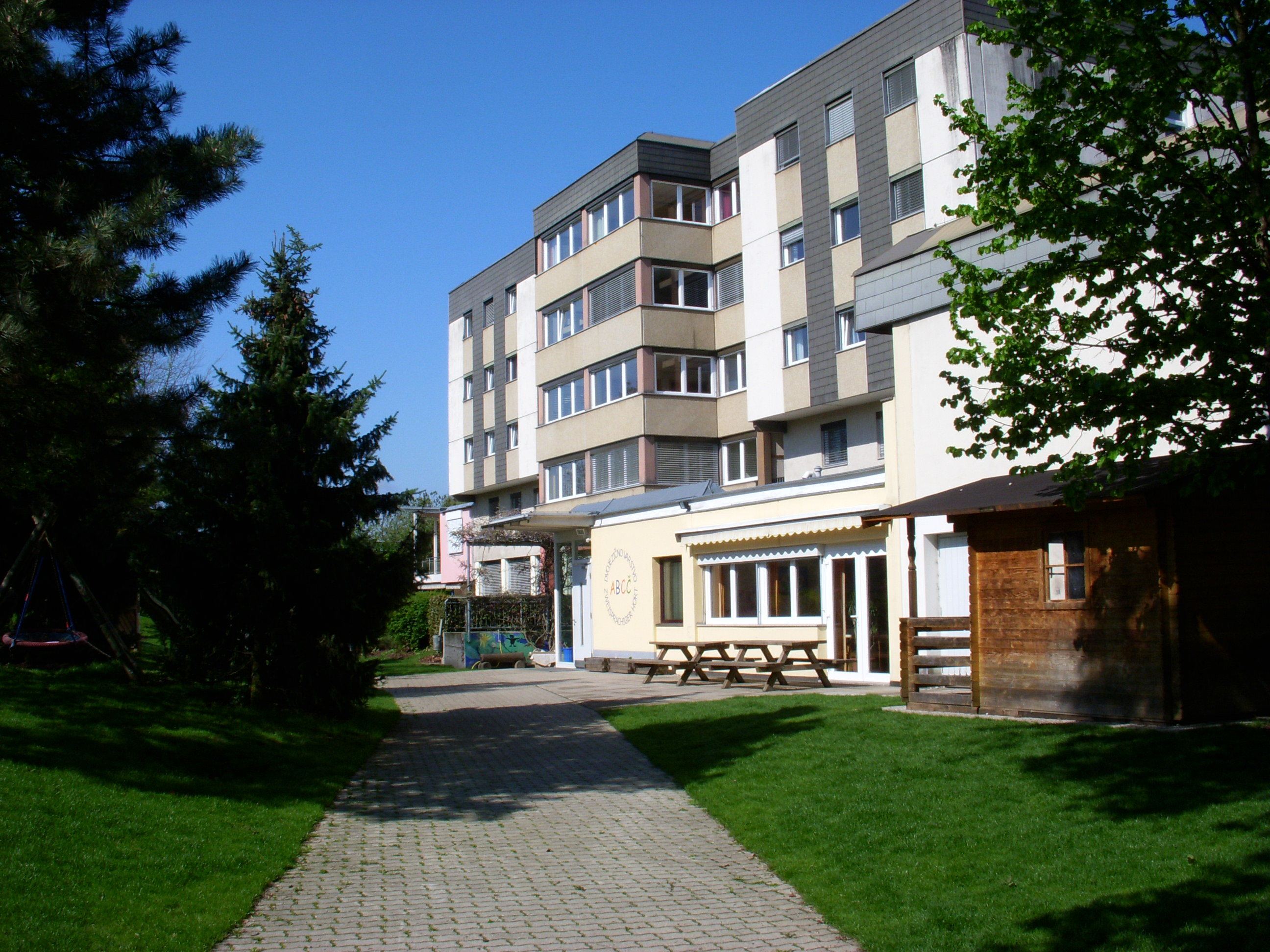 Slovenian Youth and Student's Residence "Mladinski dom", Klagenfurt/Celovec, Carinthia